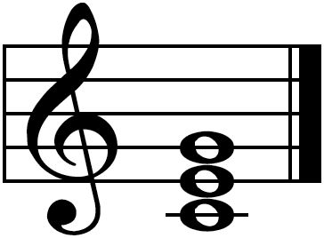 Major triad